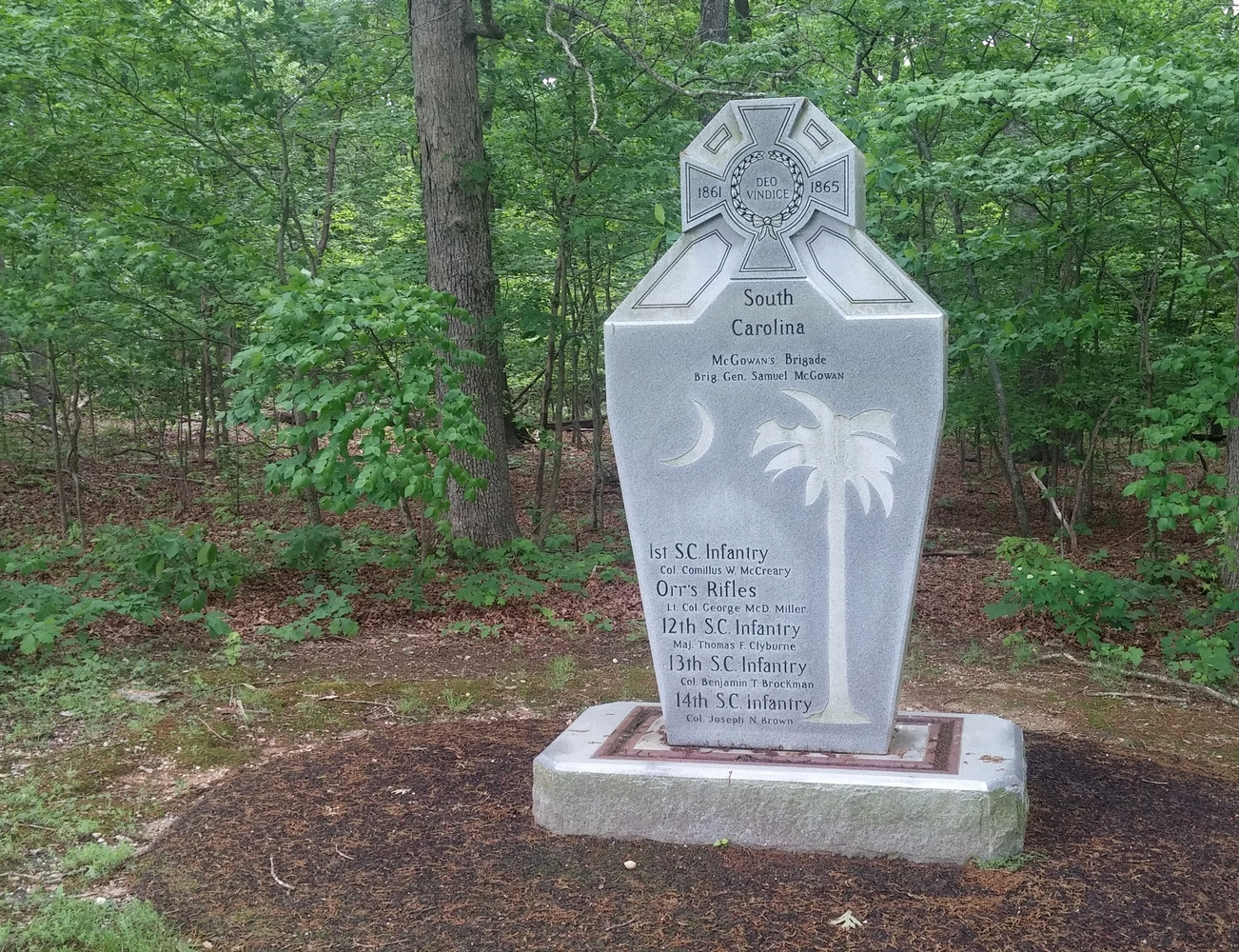 South Carolina (McGovans brigade) monument at Spotsilvania battlefield.